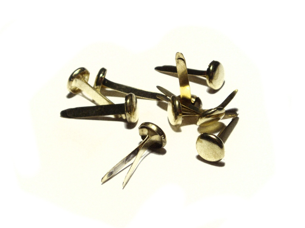 Split Pins